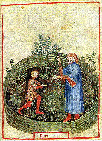 Rue (Ruta) Nature: Warm and dry in the third degree. Optimum: That which is grown near a fig tree. Usefulness: It sharpens the eyesight and dissipates flatulence. Dangers: It augments the sperm and dampens the desire for coitus. Neutralization of the Dangers: With foods that multiply the sperm. From the Tacuinum of Paris